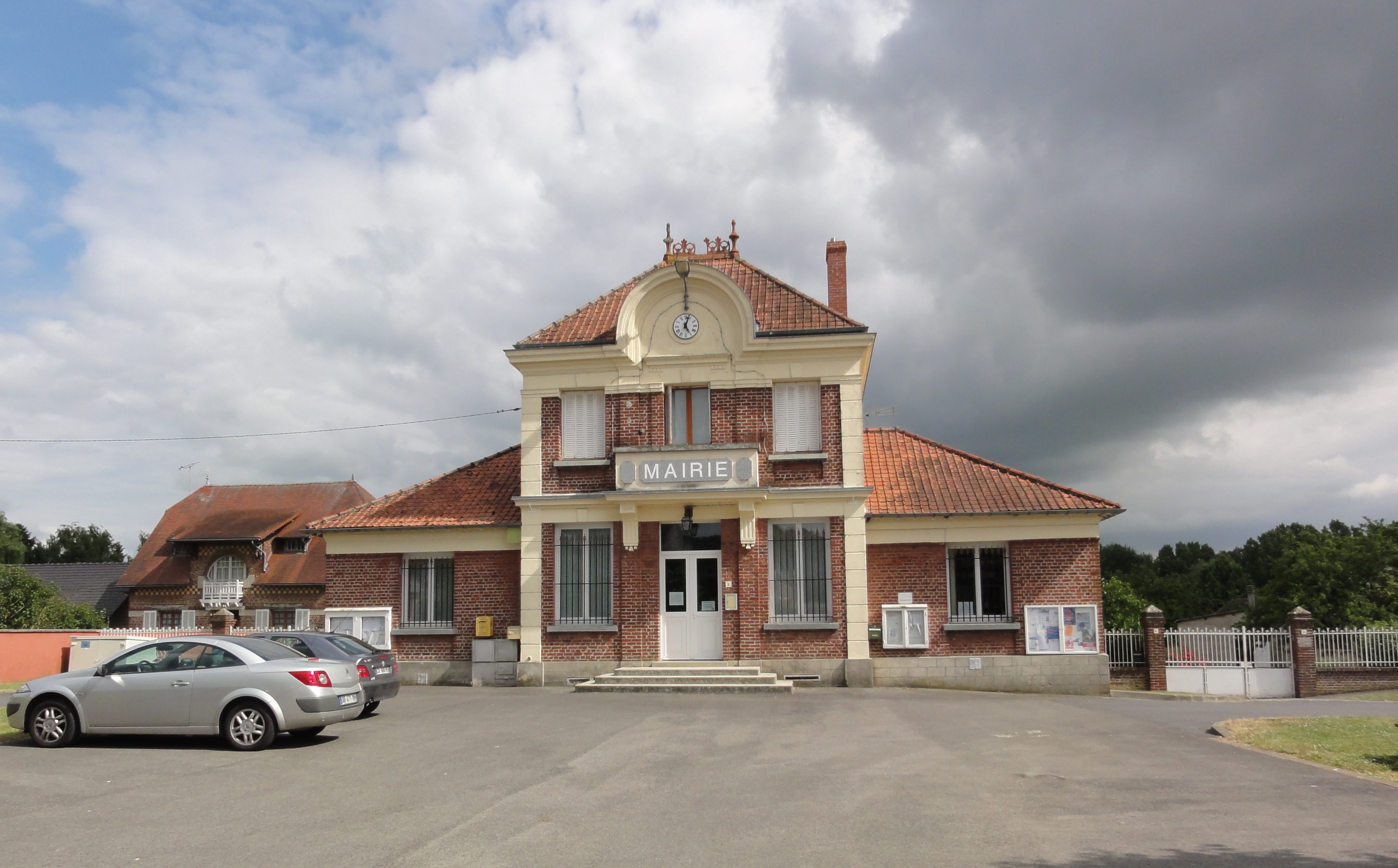 Saint-Paul-aux-Bois (Aisne) mairie